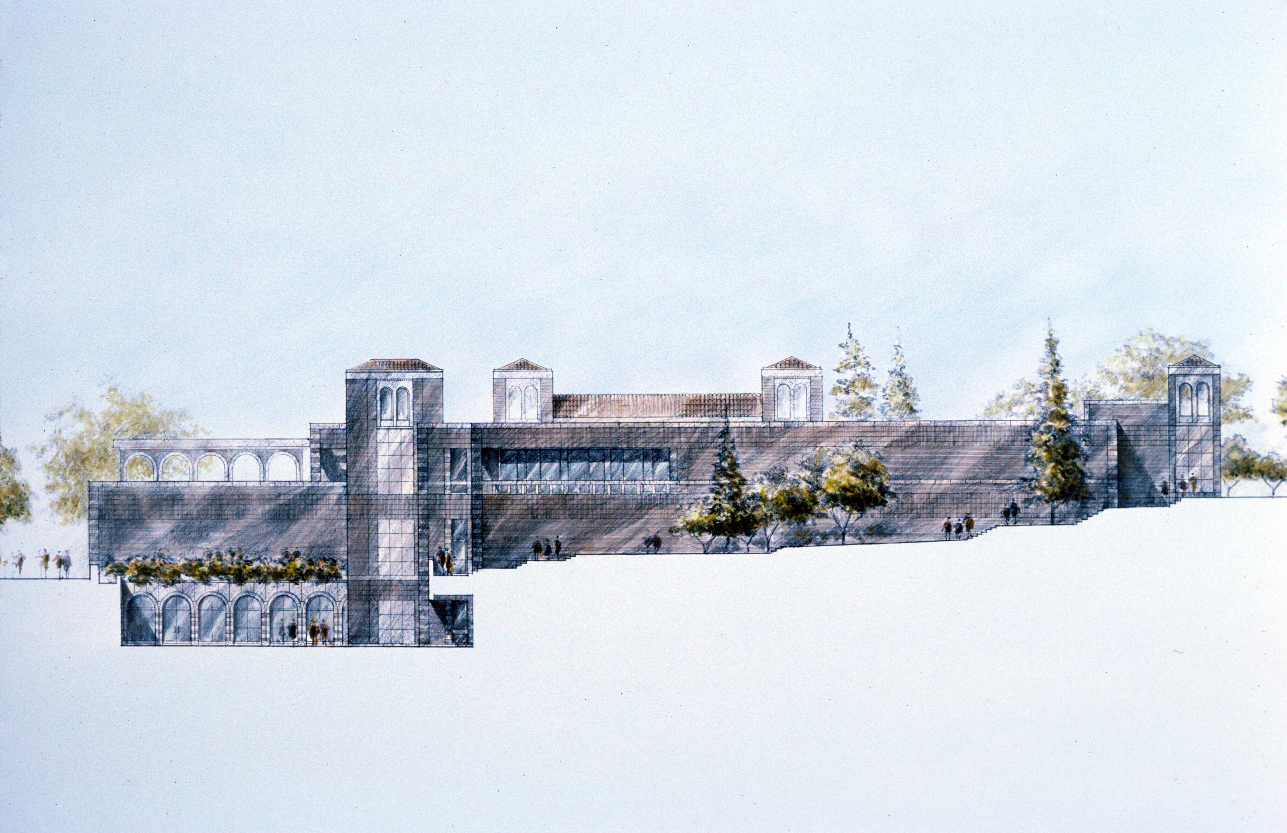 Stage one of the Fowler Museum Construction at UCLA